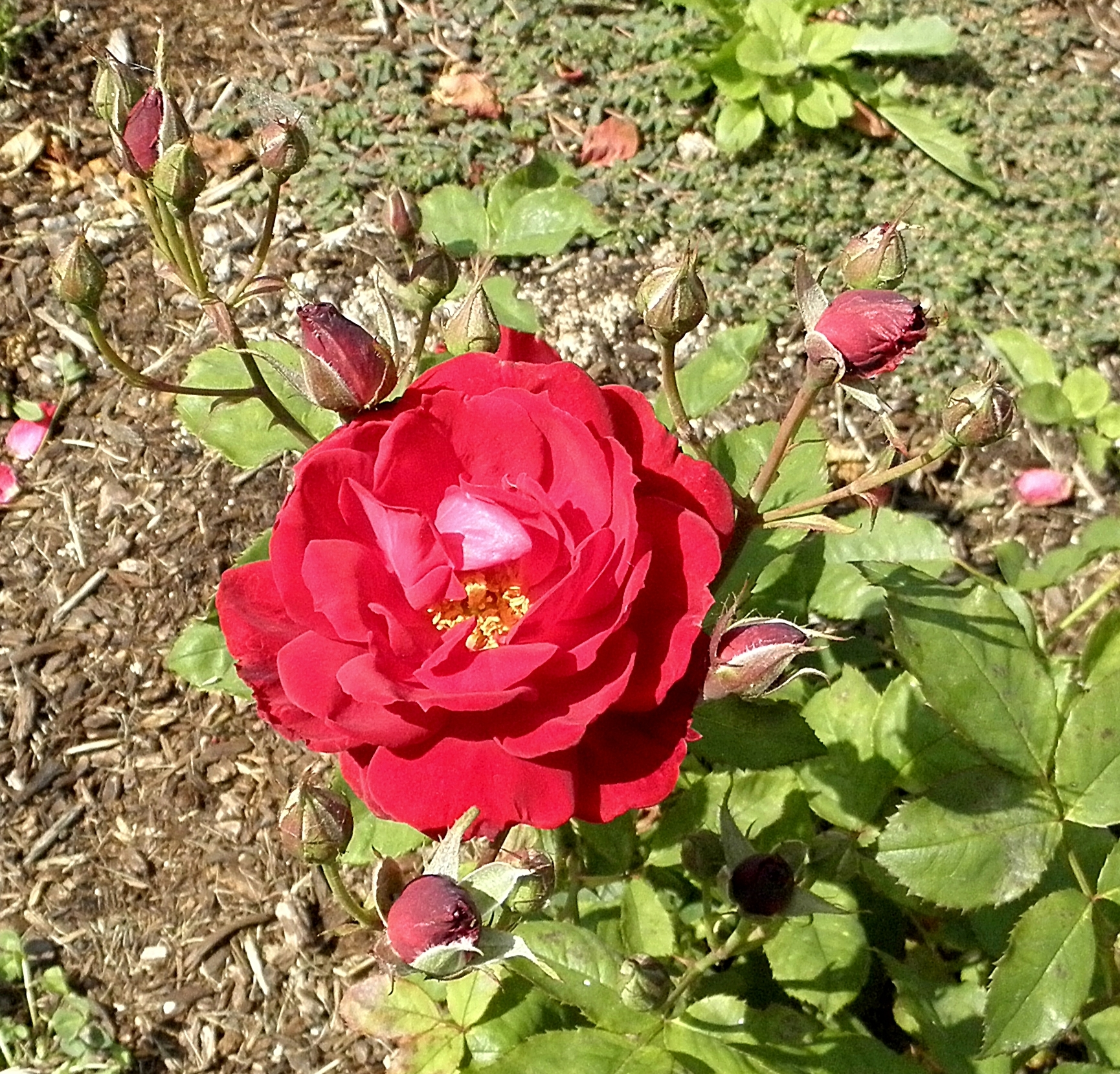 Floribunda Rose 'Ruby Lips'; Bush's Pasture Park Rose Garden, Salem, Or. 97301